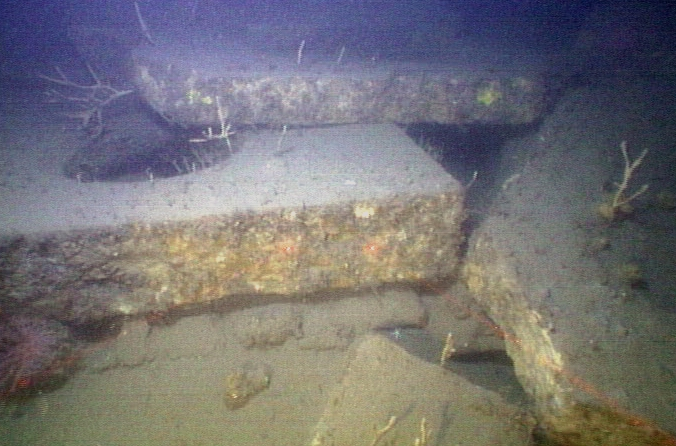 Granite blocks used in road construction rest on the floor of the Stellwagen Bank National Marine Sanctuary off Gloucester, Massachusetts. They have been associated with the wreck of the Lamartine, a cargo schooner built in 1848 and wrecked in 1893.